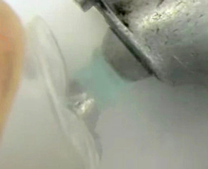 A chemical demonstration of the paramagnetism of molecular oxygen, as shown by the attraction of liquid oxygen to magnets.